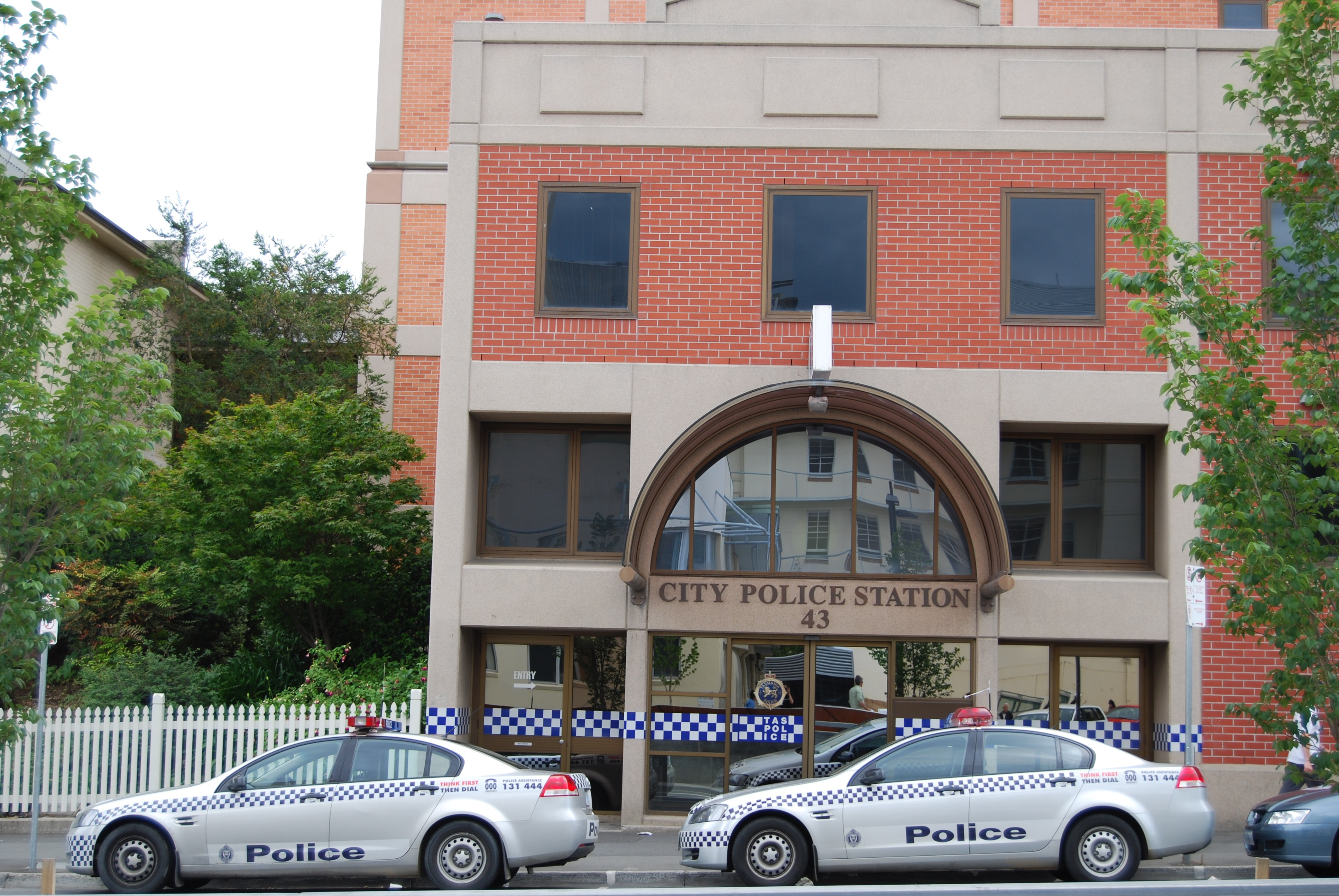 City Police Station, headquarters of Tasmania Police in Hobart, Australia. Police cars from left to right: Holden VE Commodore Omega, Holden VE Commodore Omega, Holden VZ Commodore Executive.